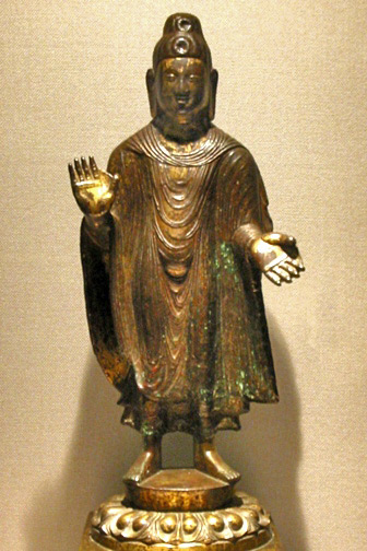 Tokyo National Museum. Personal photograph, 2004.